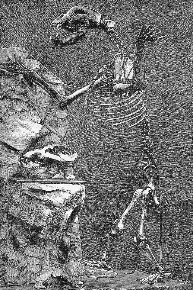 Ursus spelaeus (Cave Bear), Skeleton at "Wiener Hofmuseum" (Vienna)